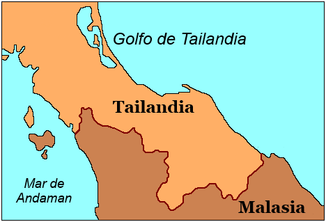 Malaysia-Thailand border.